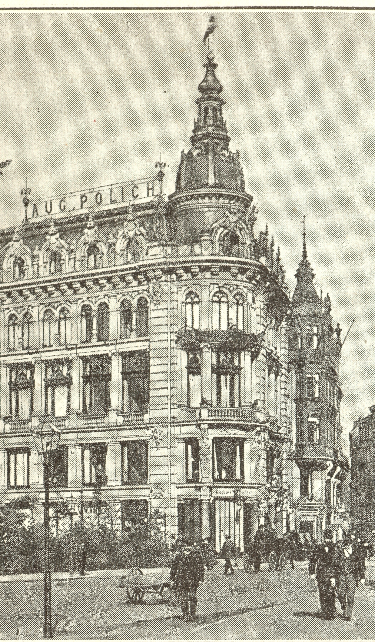 Geschäftshaus Polich, Leipzig